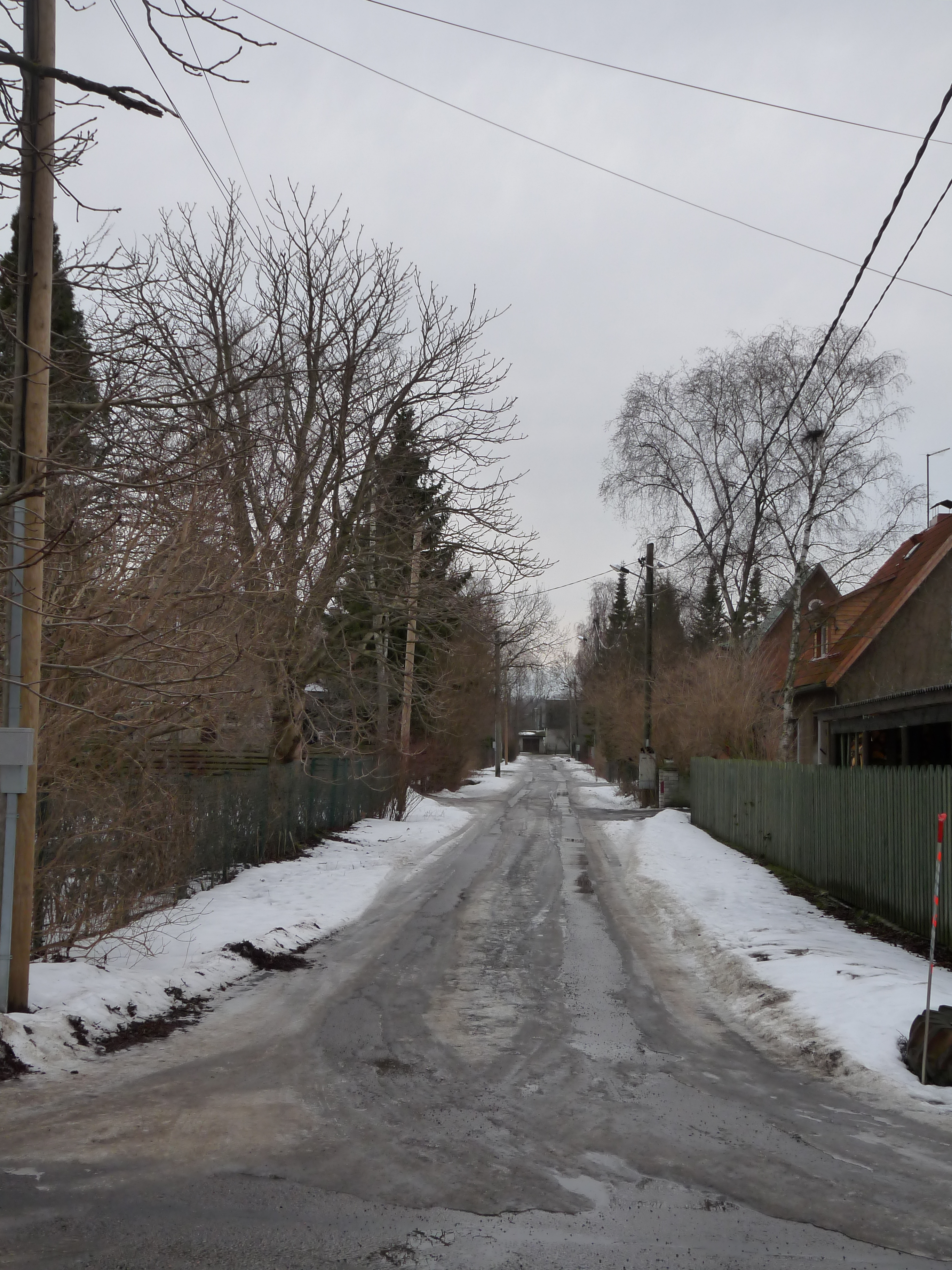 Joone street in Tallinn, Estonia